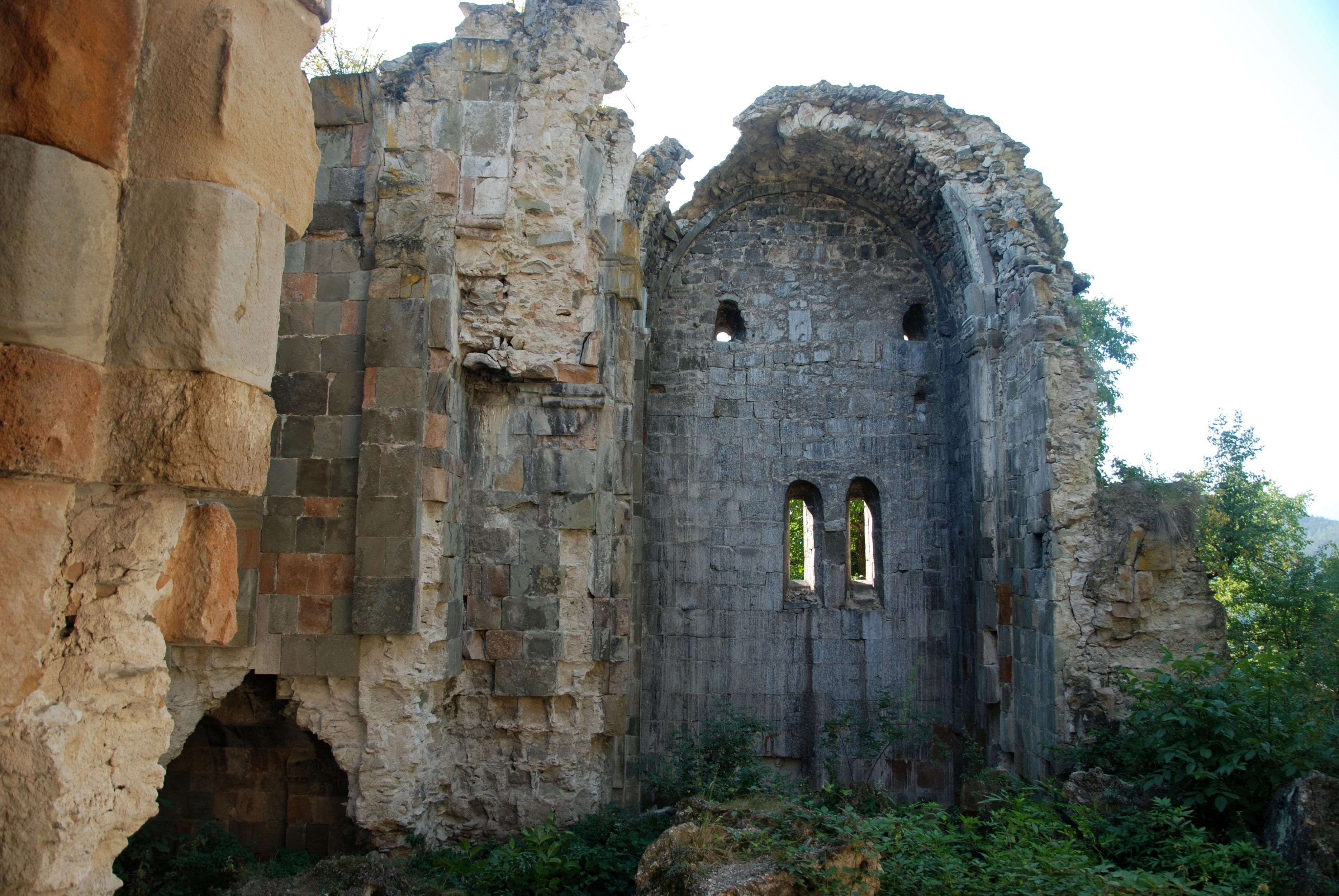 Tbeti, Georgian church in Artvin province, in towards south